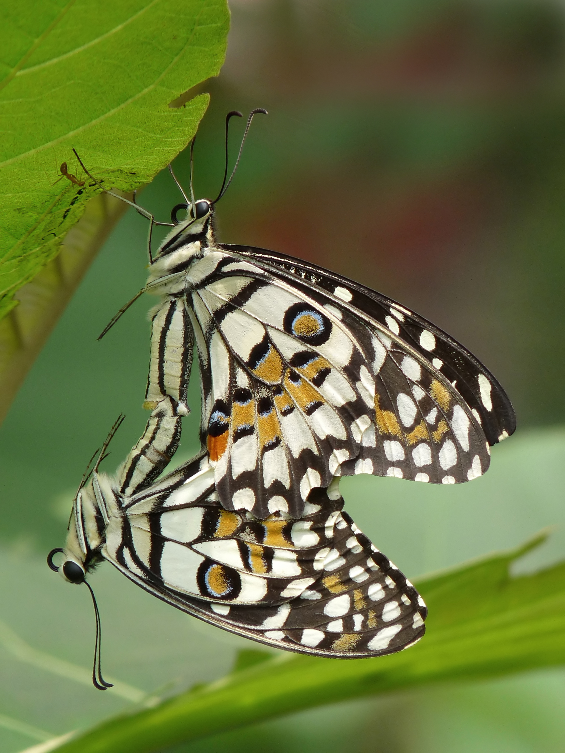 Papilio demoleus, is a common and widespread swallowtail butterfly. Common names include Common Lime Butterfly, Lemon Butterfly, Lime Swallowtail, Small Citrus Butterfly, Chequered Swallowtail, Dingy Swallowtail, and Citrus Swallowtail. It gets its common names from its host plants, which are usually citrus species such as the cultivated lime. Unlike most swallowtail butterflies, it does not have a prominent tail. The butterfly is a pest and invasive species from the Old World which has spread to the Caribbean and Central America. Taken at Kadavoor, Kerala, India.